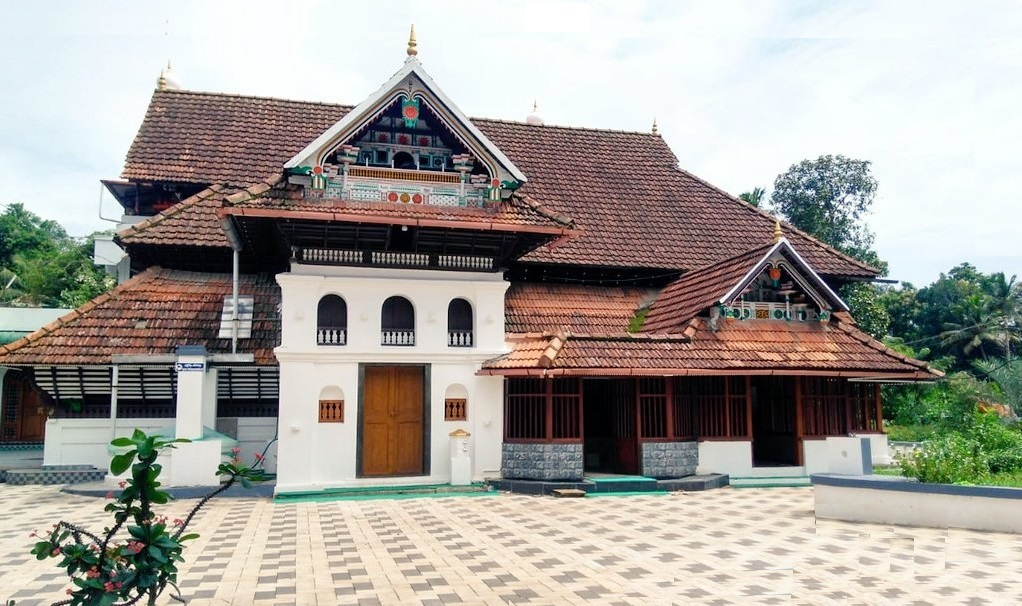 Thazhathangadi Juma Masjid, Thaliyanthanapuram